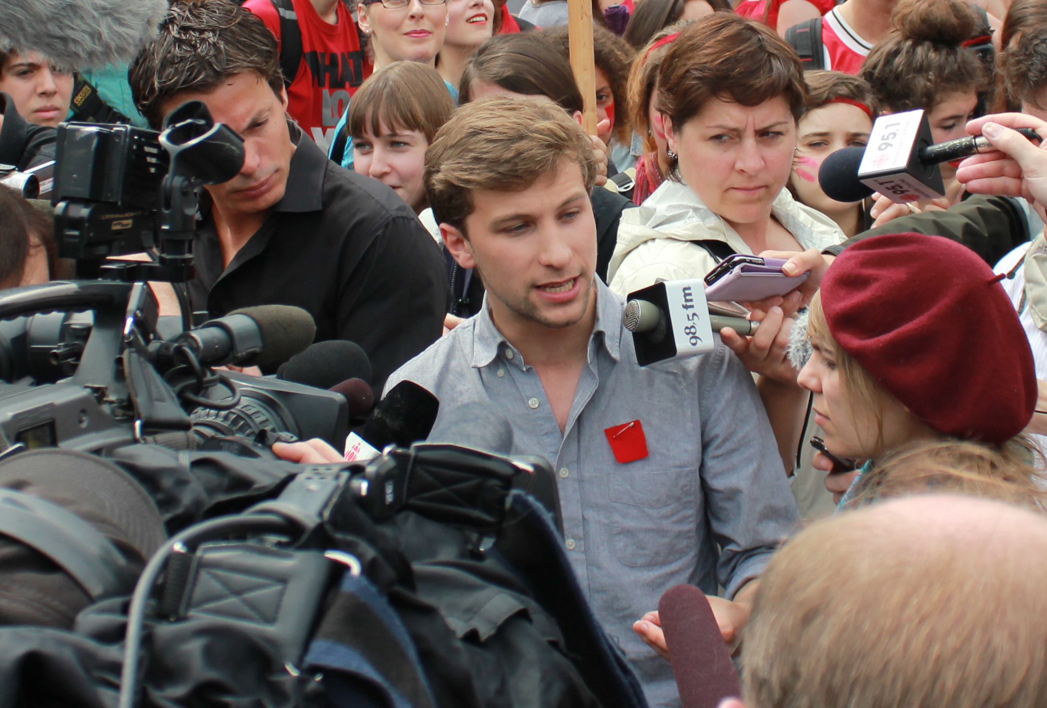 CLASSE spokespersons, Gabriel Nadeau-Dubois and Jeanne Reynolds answer reporters questions during an improvised press conference during a May 22, 2012 demonstration in Montreal.